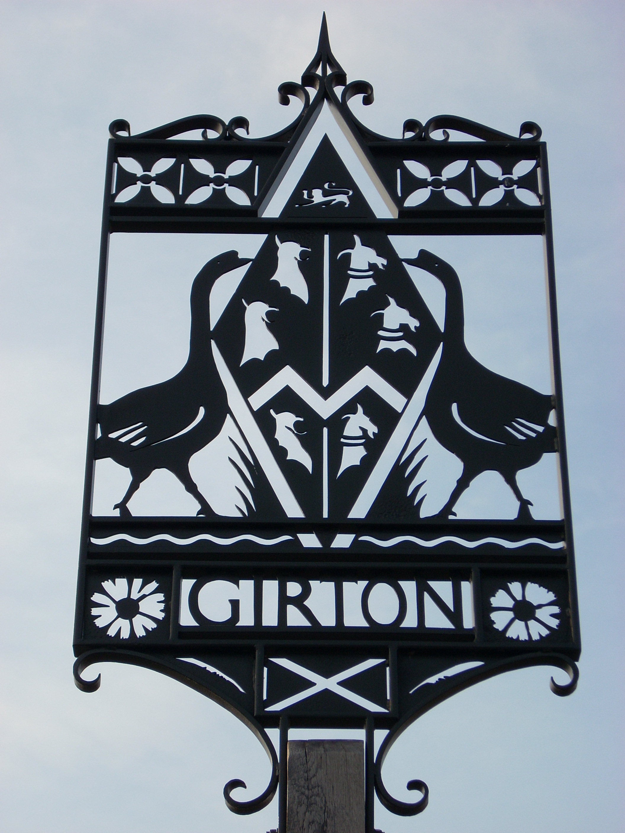 Village sign of Girton, Cambridgeshire